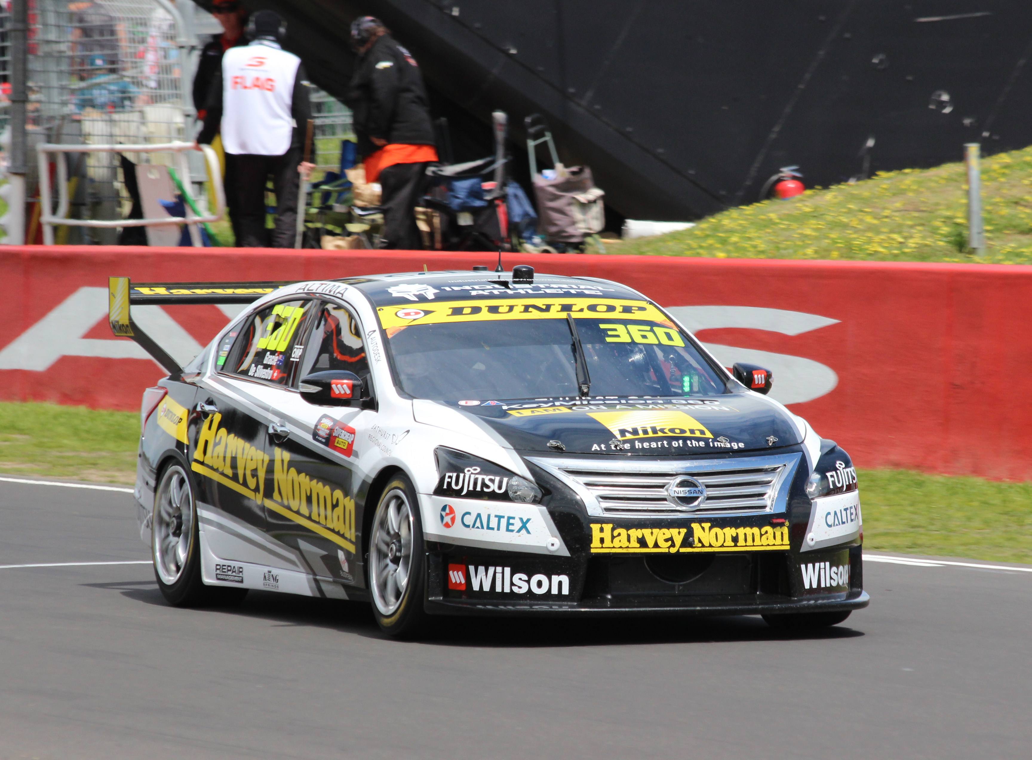 The Nissan Motorsport Nissan Altima L33 of Simona de Silvestro and Renee Gracie during the 2016 Supercheap Auto Bathurst 1000.